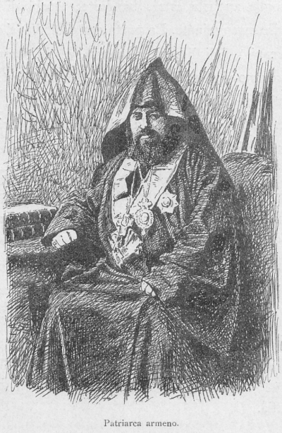 drawing from a travellers guide. Constantinople (1878)